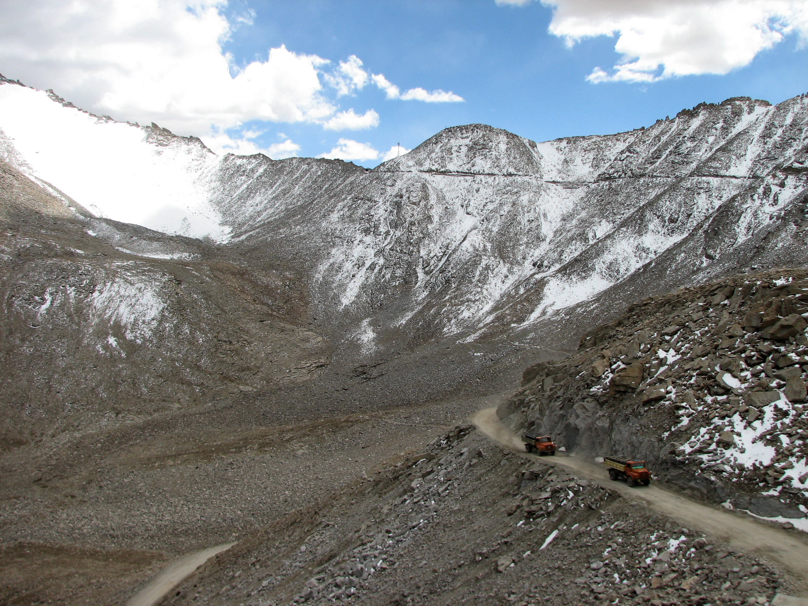 Khardung La pass in the middle and heavy trucks